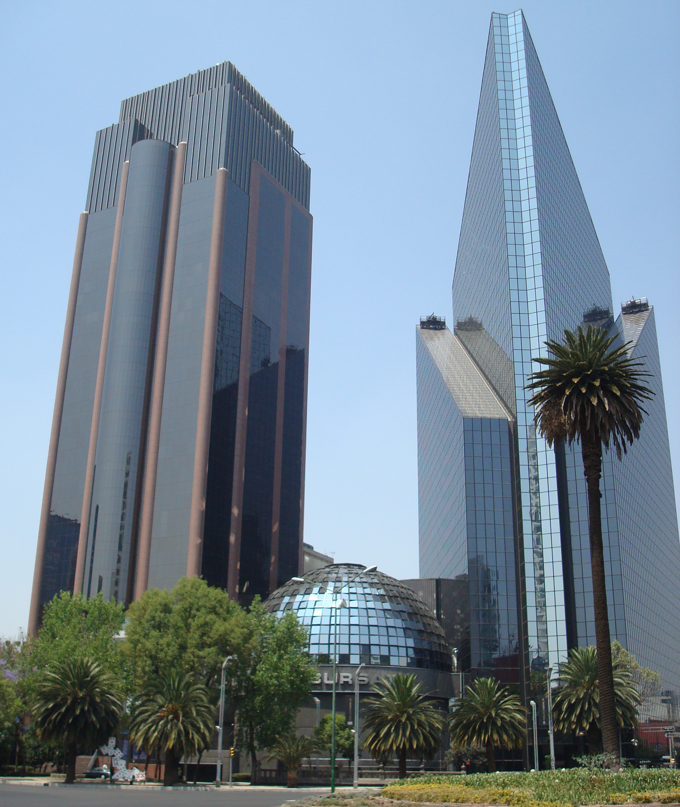 Picture of the BMV building on Reforma Ave. Mexico City